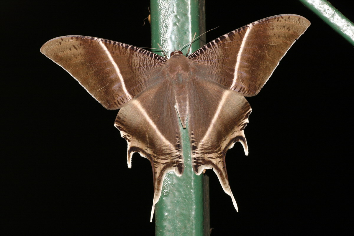 Malaysia, Fraser's Hill March 2009